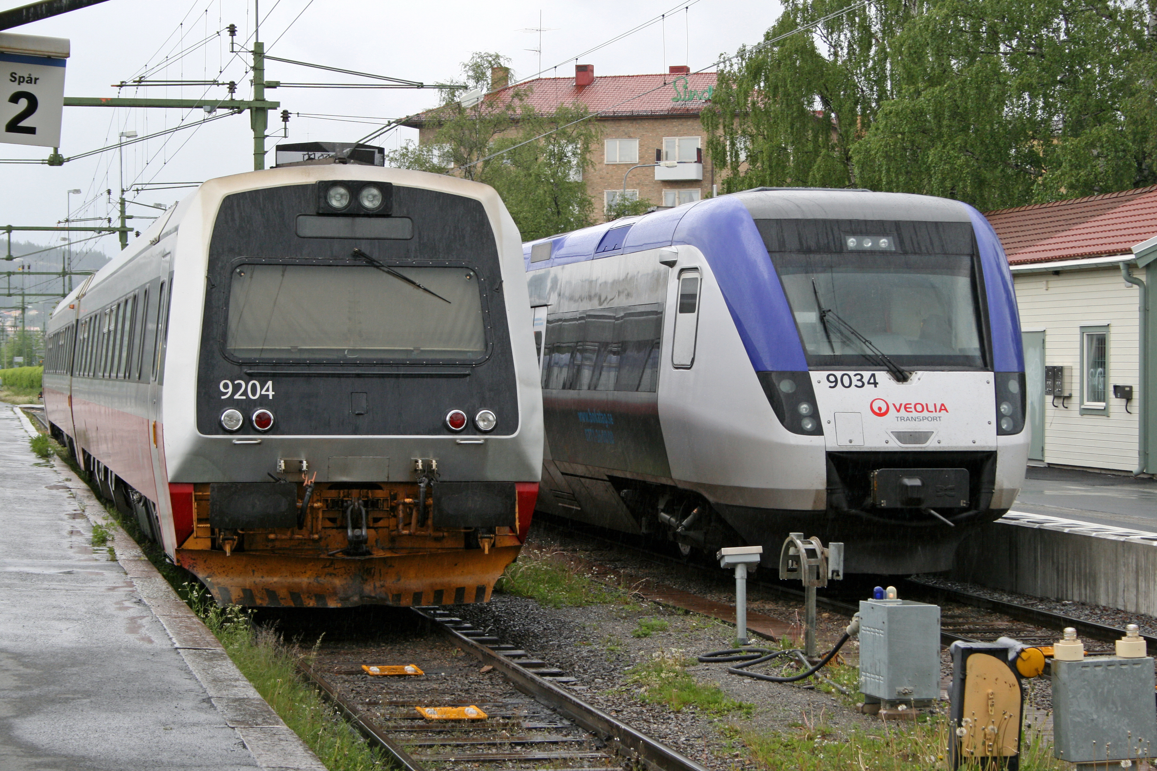 One BM92 and one Regina at Östersund railway station.